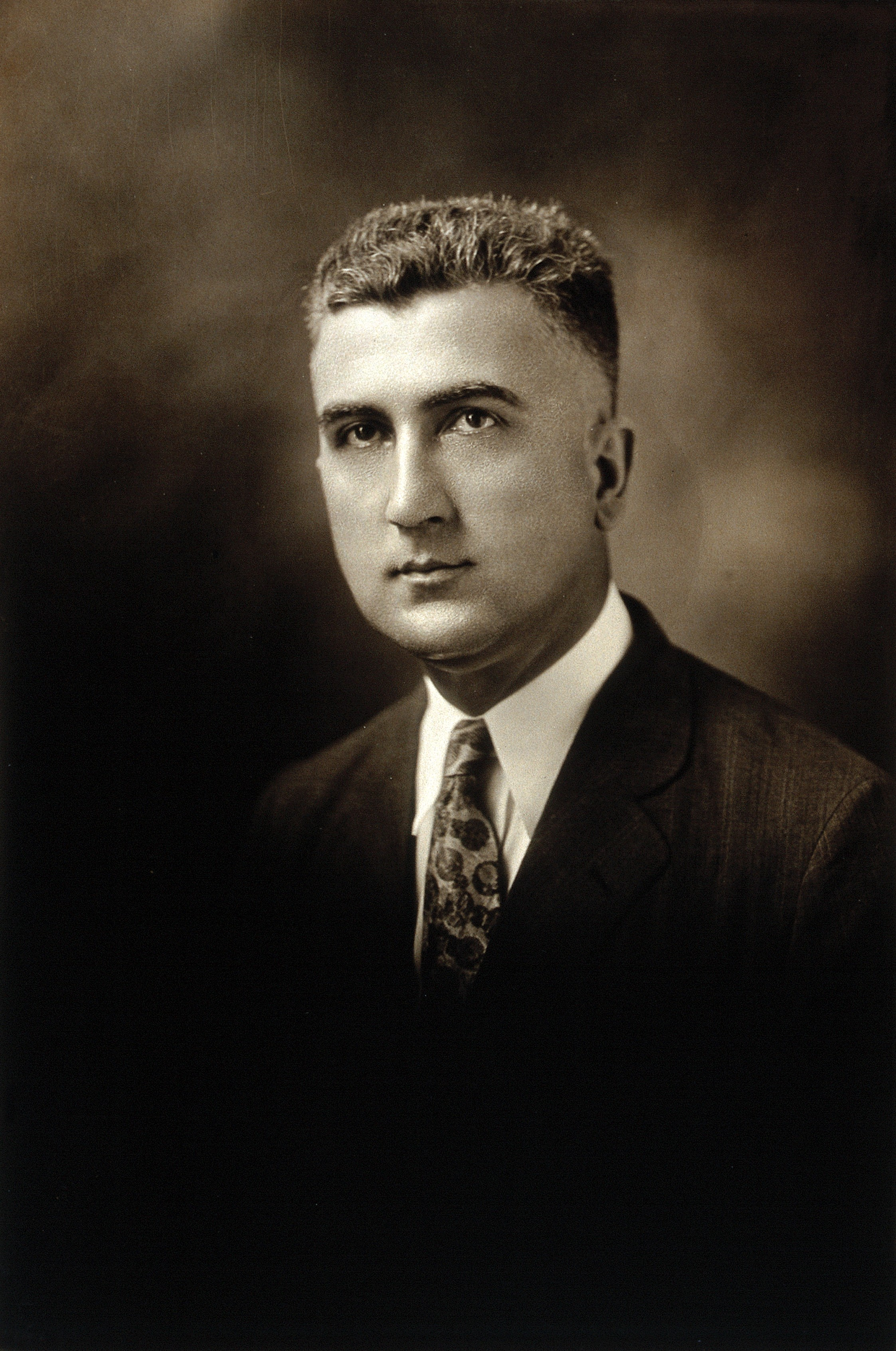 Mark Frederick Boyd. Photograph. Iconographic Collections Keywords: portrait photographs